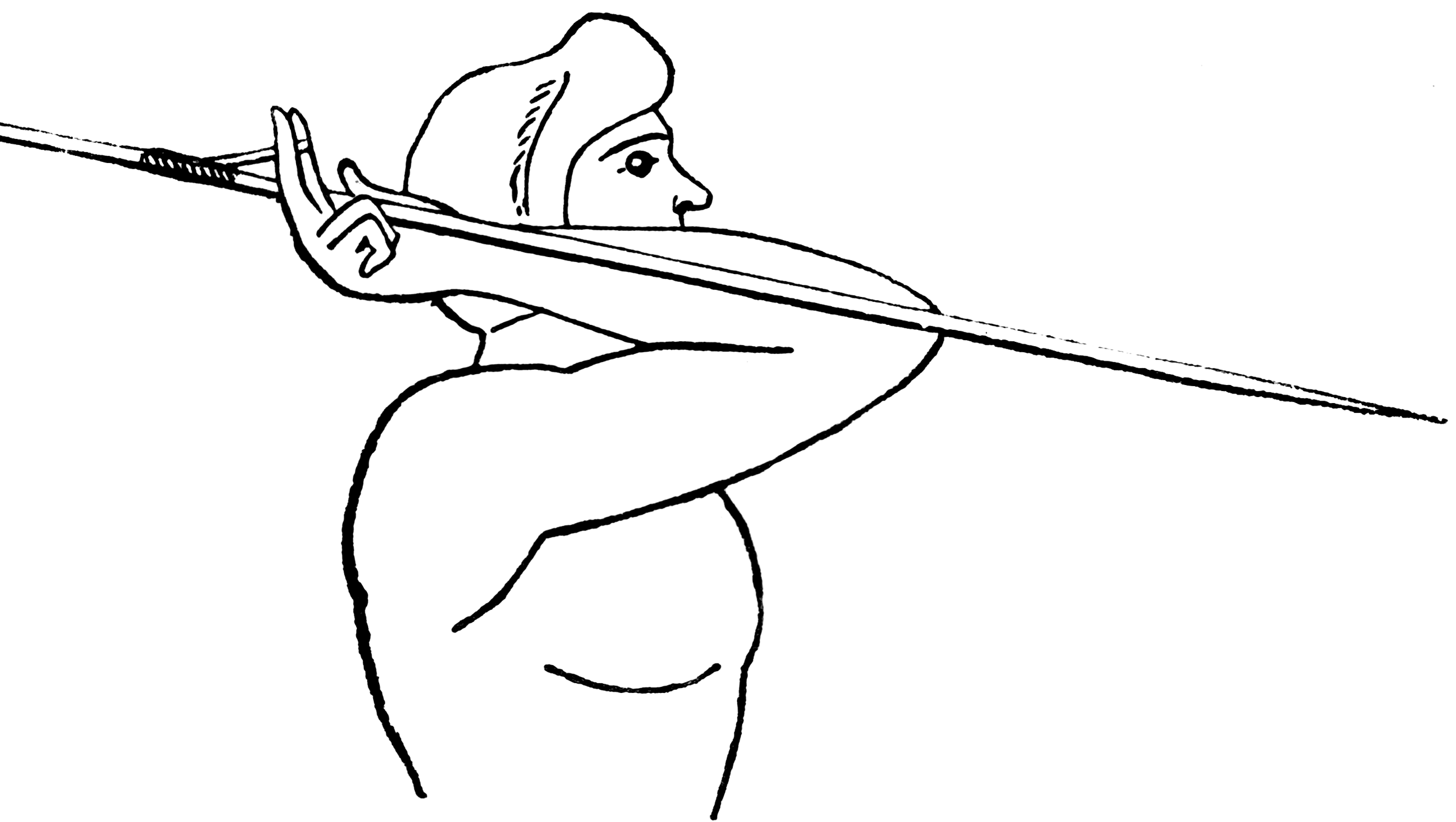 Figure with Acontium